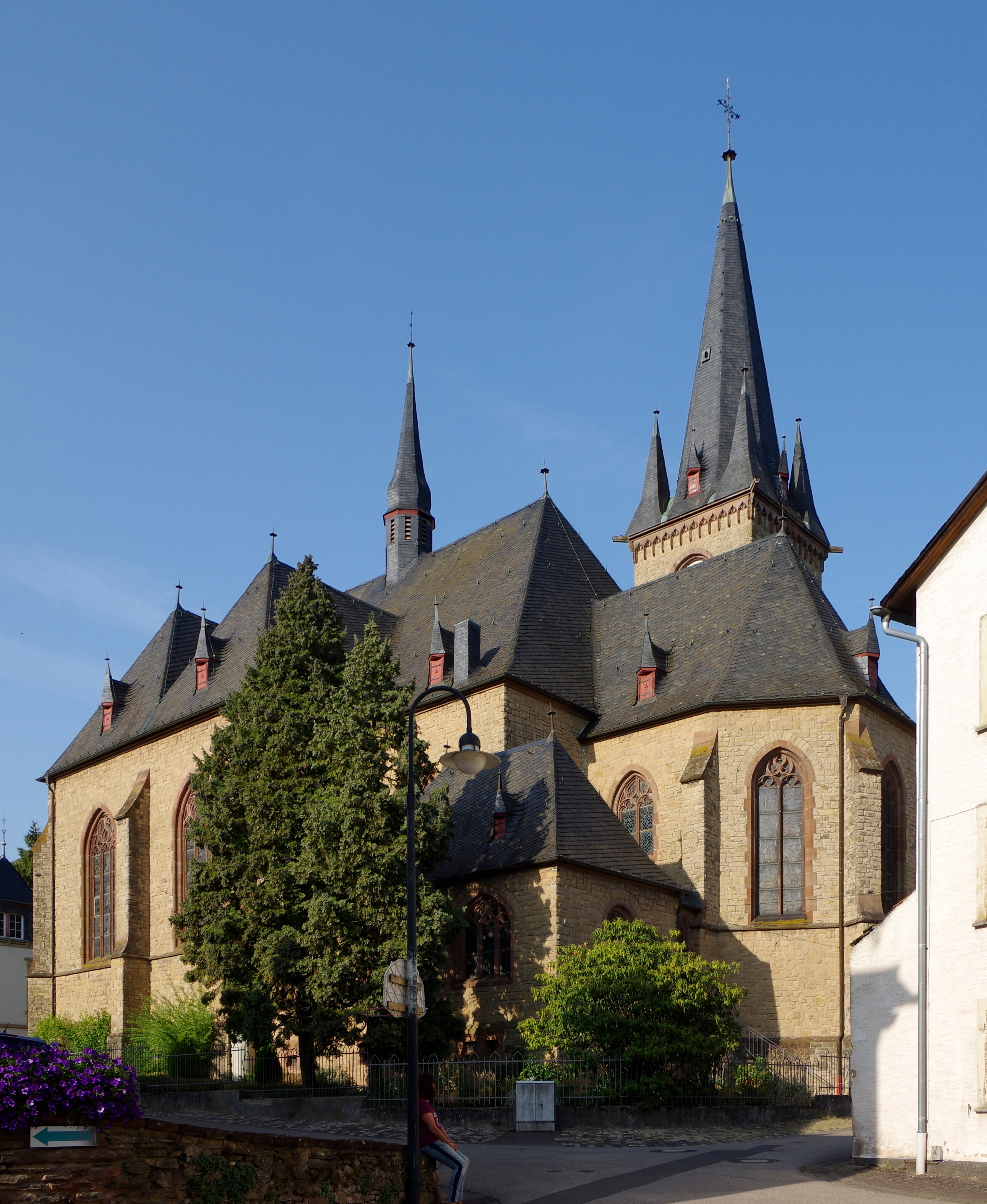 Germany, Wiltingen, parish church St.Martin